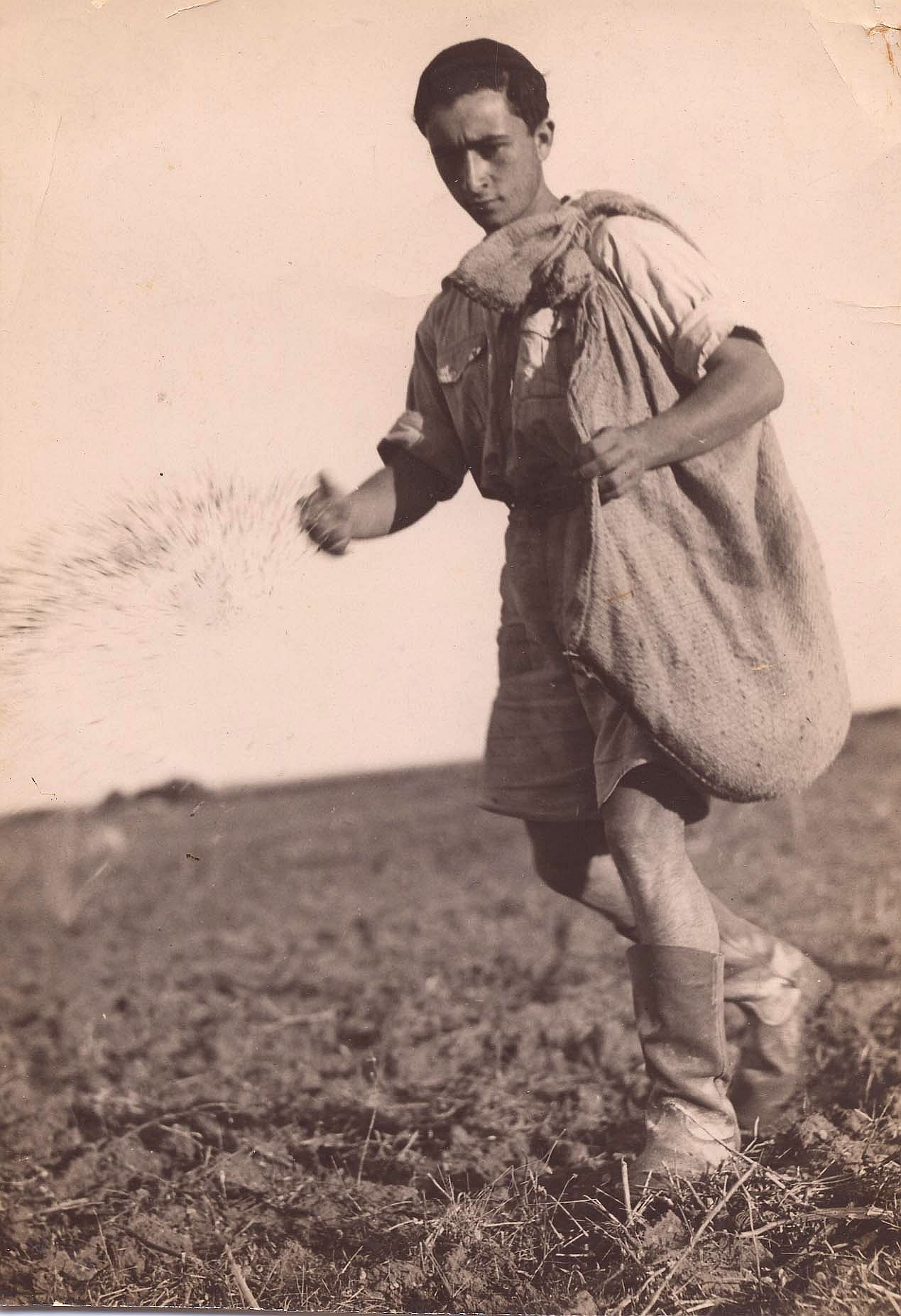 rodges, israel, petach-tikva, Settlements in Israel